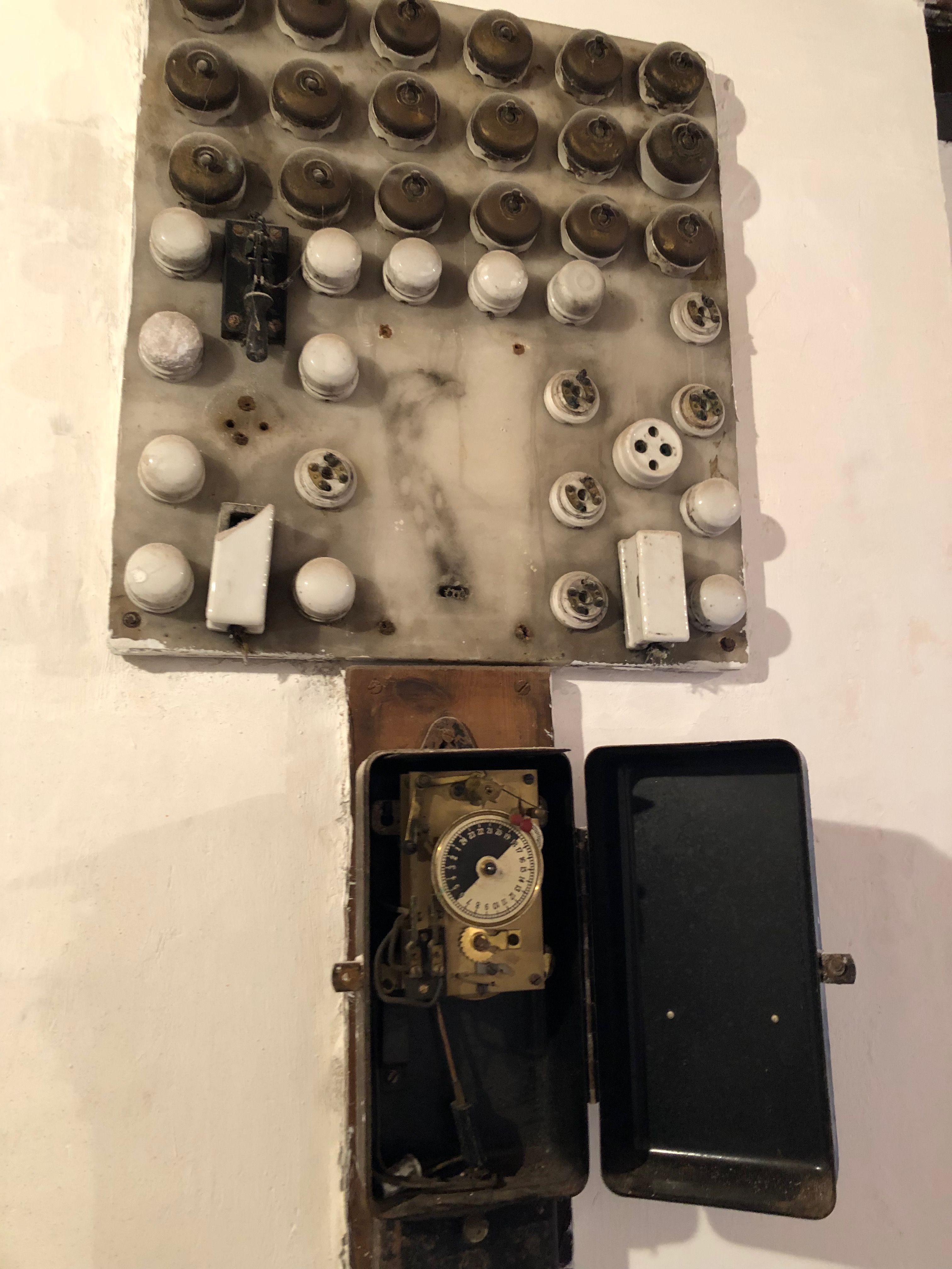 Synagogue Walid sanae:560024